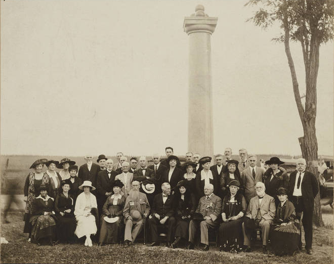 Monument dedication to Stephen Dodson Ramseur at Cedar Creek Battlefield near Middletown, Virginia, 1920. Was erected in 1920 by the North Carolina United Daughters of the Confederacy with assistance from the North Carolina Historical Commission and the United Confederate Veterans. Representatives from General Ramseur’s hometown of Lincolnton, North Carolina and 45 Ramseur descendants were among the 120 people in attendance at the ceremony. The North Carolina Collection Photographic Archives (NCCPA); Folder 3779: Ramseur, Stephen Dodson (1837-1864): Scan 3